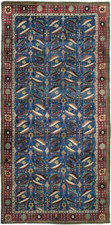 Kirman vase carpet from South east Persia, mid 17thc entury, corroded black, minute repairs in centre, otherwise outstanding condition 11ft.1in. x 5ft. (339cm. x 153cm),sold as Lot 100 of sale 7845 by Christie's in London on April 15th 2010 for record price of £6,201,250/$9.599 Million (including buyer's premium). It was a record for both carpets and islamic art in general.